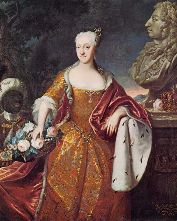 Portrait of Prinssesse Charlotte Amalie af Danmark (1706-1782)